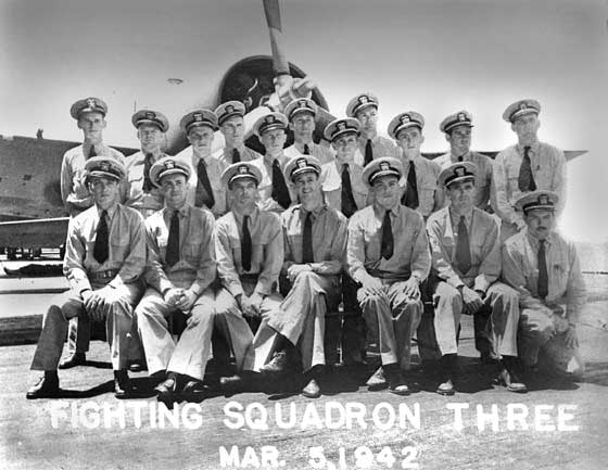 The pilots of the U.S. Navy Fighting Squadron 3 (VF-3) in front of a Grumman F4F-3 Wildcat fighter, 5 March 1942. Standing (l-r): Newton H. Mason, Howard F. Clark, Edward R. Sellstrom, Willard E. Eder, Howard L. Johnson, John H. Lackey, Leon W. Haynes, Onia B. Stanley, Jr., Dale W. Peterson, Marion W. Dufilh, Rolla S. Lemmon. Sitting (l-r): Robert J. Morgan, Albert O. Vorse, Jr., Donald A. Lovelace, John S. "Jimmy" Thach, Noel A.M. Gayler, Edward H. "Butch" O'Hare, Richard M. Rowell.